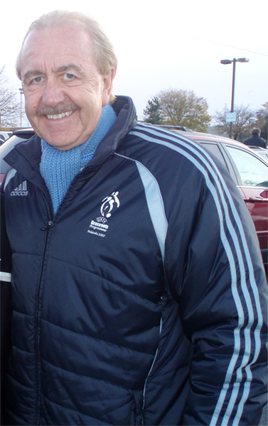 Canadian soccer legend Dick Howard prior to the 2008 Canadian Soccer League final played between the Trois-Rivières Attak and the Serbian White Eagles.This photo was used in the following places